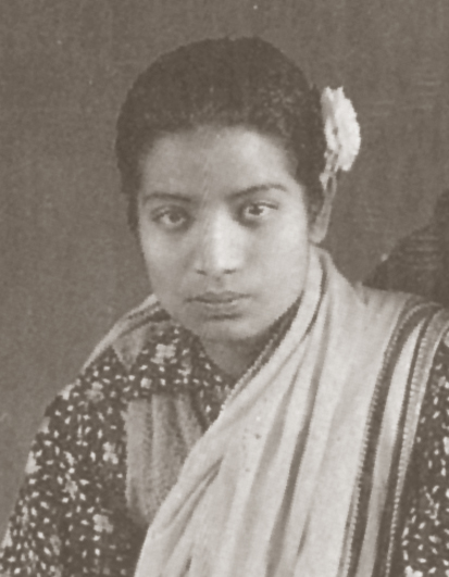 Mangala Devi Singh (1924-1996), founding president of the Nepal Women’s Association, in 1951.